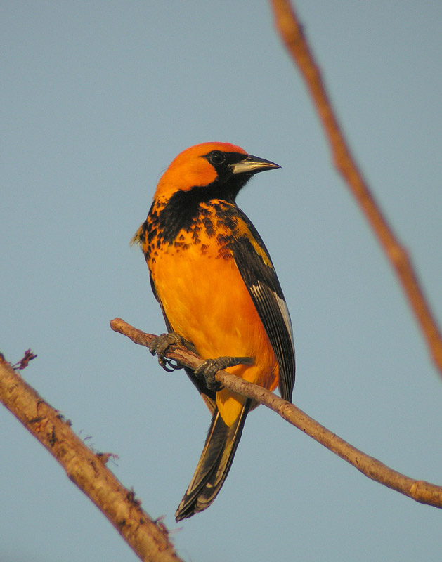 Spot-breasted Oriole (Icterus pectoralis), Tempisque, Costa Rica. One tree had 3 different Oriole species. This species has naturalized in south Florida suburban neighborhoods.